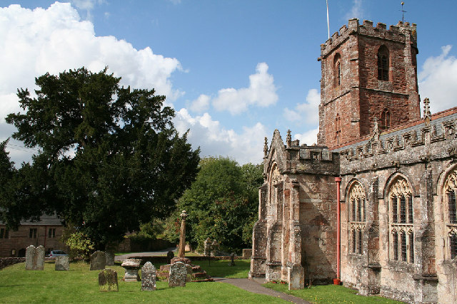 Crowcombe: Crowcombe church and cross View to the church house, beyond the yew tree, built in 1515 and the parish hall since 1977. The church, dedicated to the Holy Ghost, originally had a spire, felled by lightning in 1725 [Author's description from Geograph]